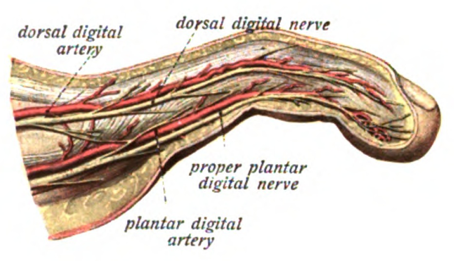 An anatomical illustration from Sobotta's Human Anatomy 1909